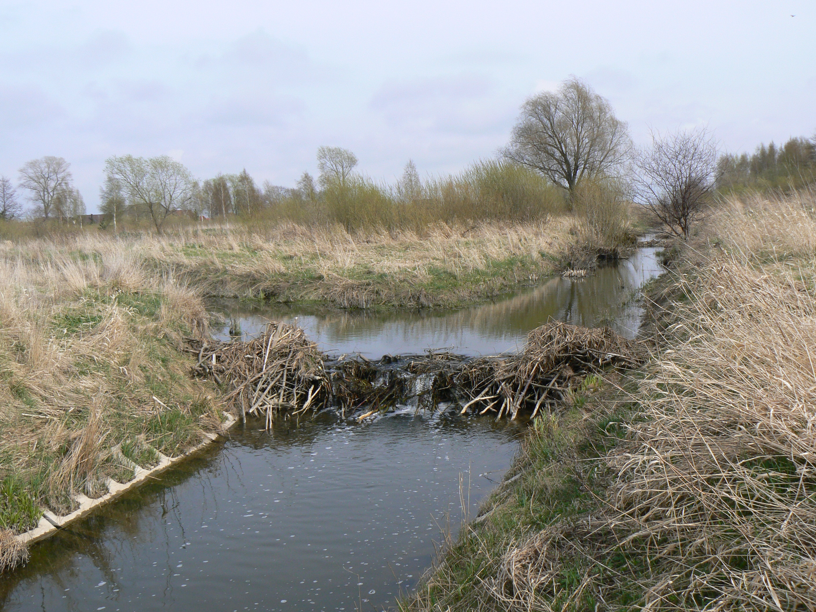 Rąžė (left) and Žiogupis confluence.